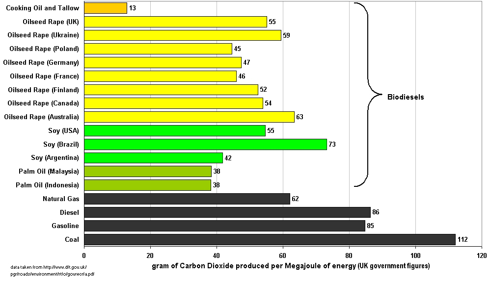 Excel Graph showing the Carbon Intensity of different Biofuels. Derived from information found in the UK crown copyright document.[1]